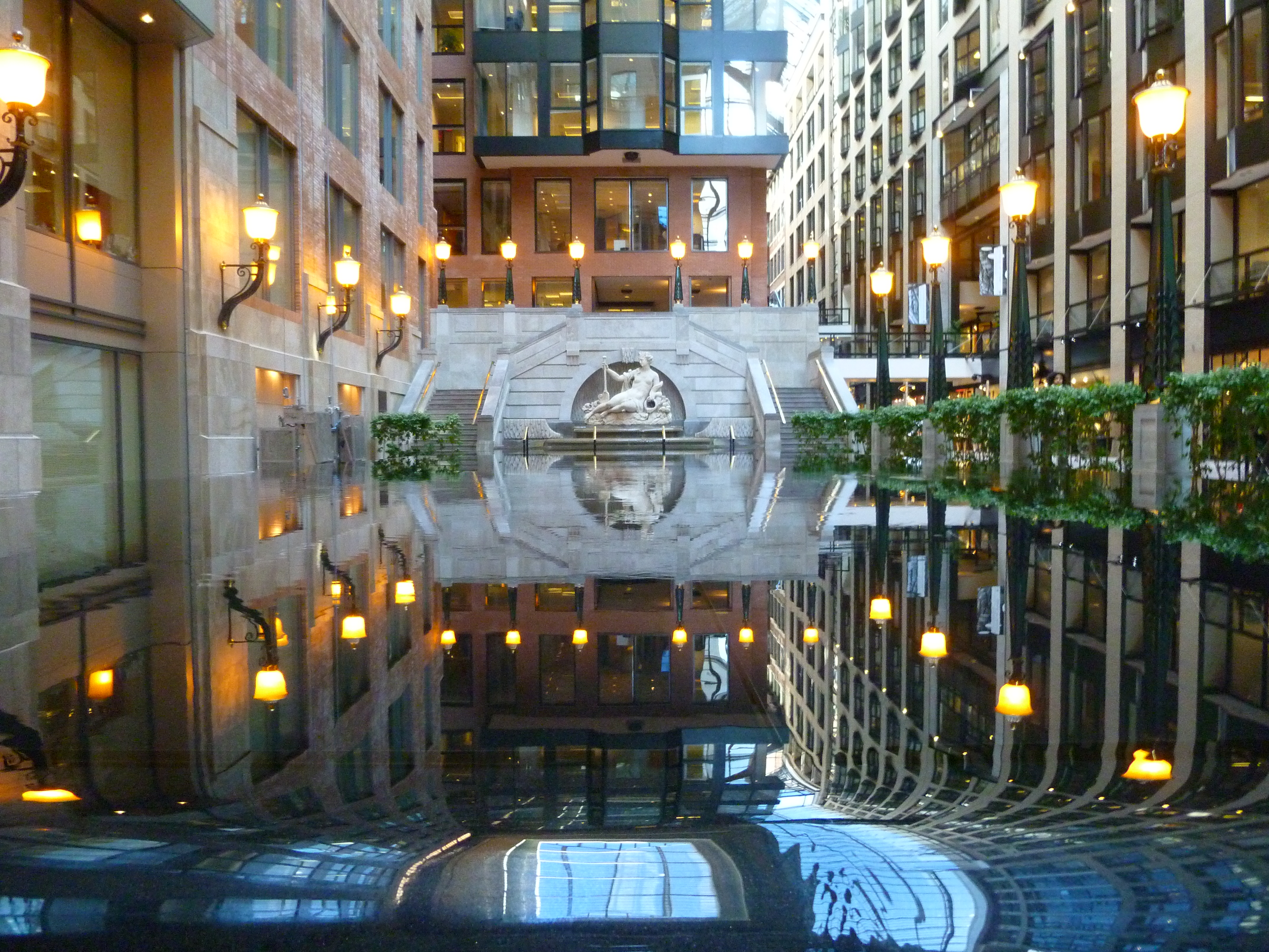 The Fountain and reflecting pool in the Montreal World Trade Center, the Centre de Commerce mondial de Montréal.